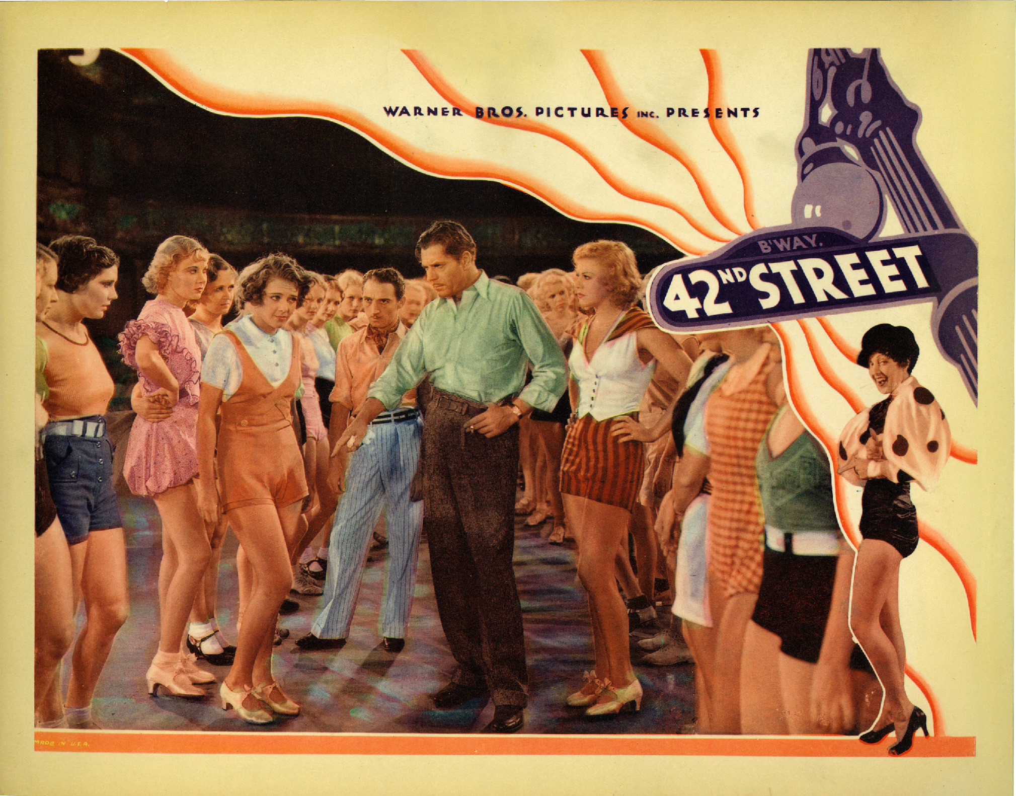 Lobby card from the 1933 film 42nd Street.